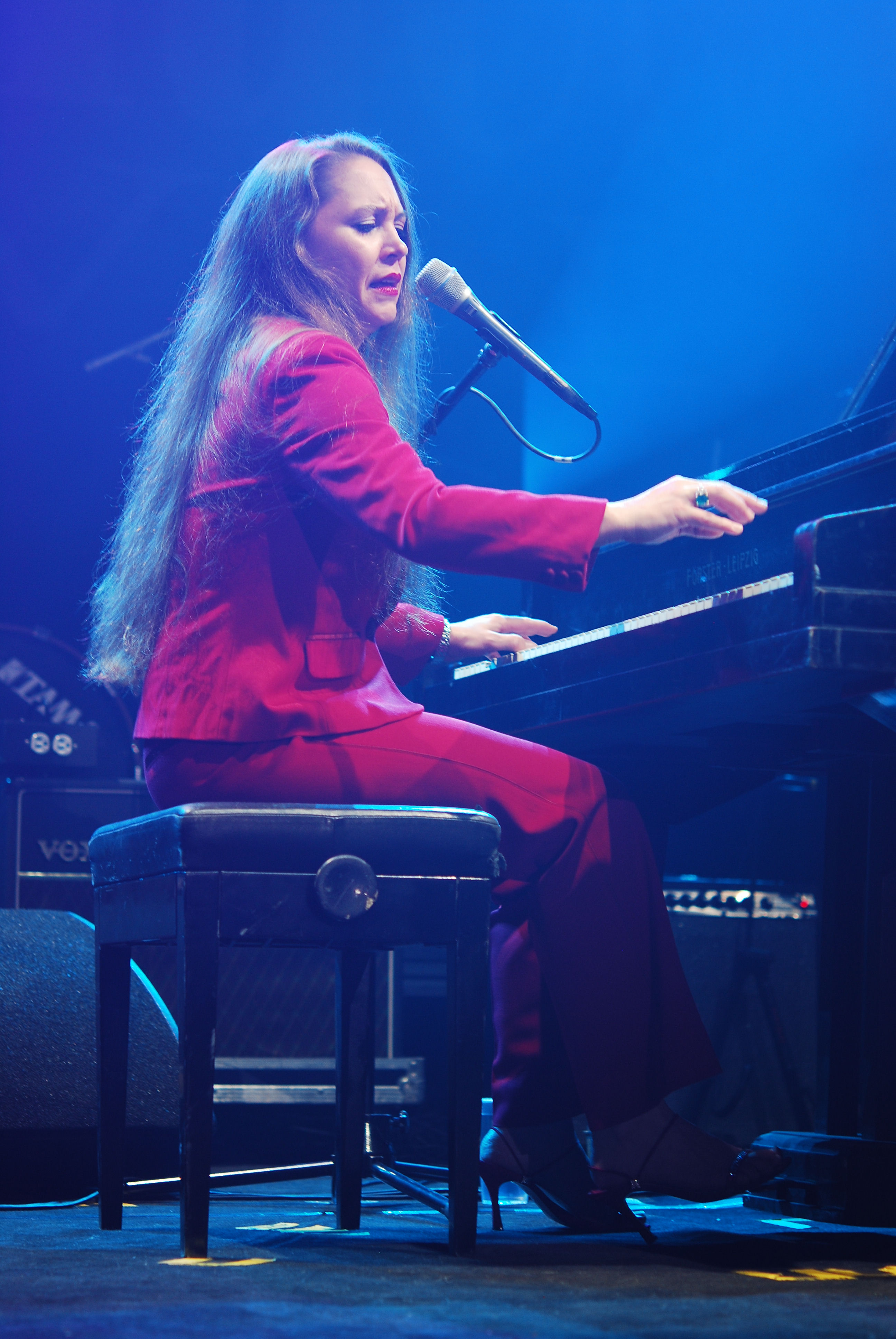 Taking of this photo was in cooperation with Rawa Blues (homepage)